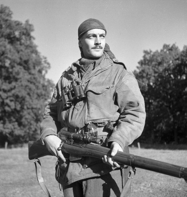 Sergeant sergeant H.A. Marshall of the Calgary Highlanders Sniping Platoon. Kapellen, Belgium.